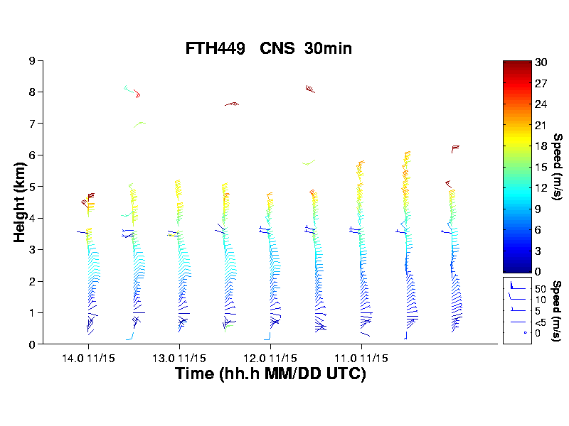 Analysis of horizontal velocities averaged on 30 minutes and noted by a wind profiler.